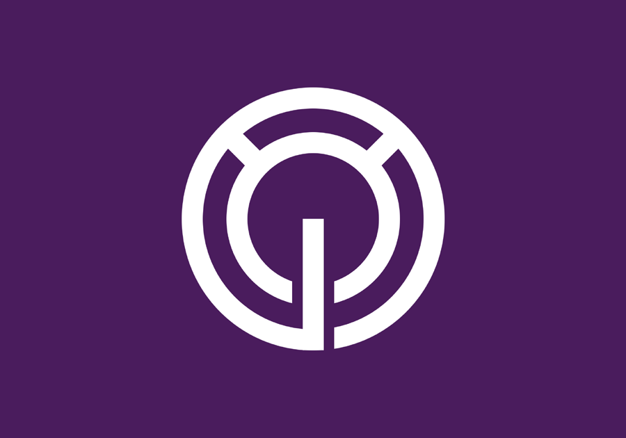 Flag of Nobeoka, Miyazaki